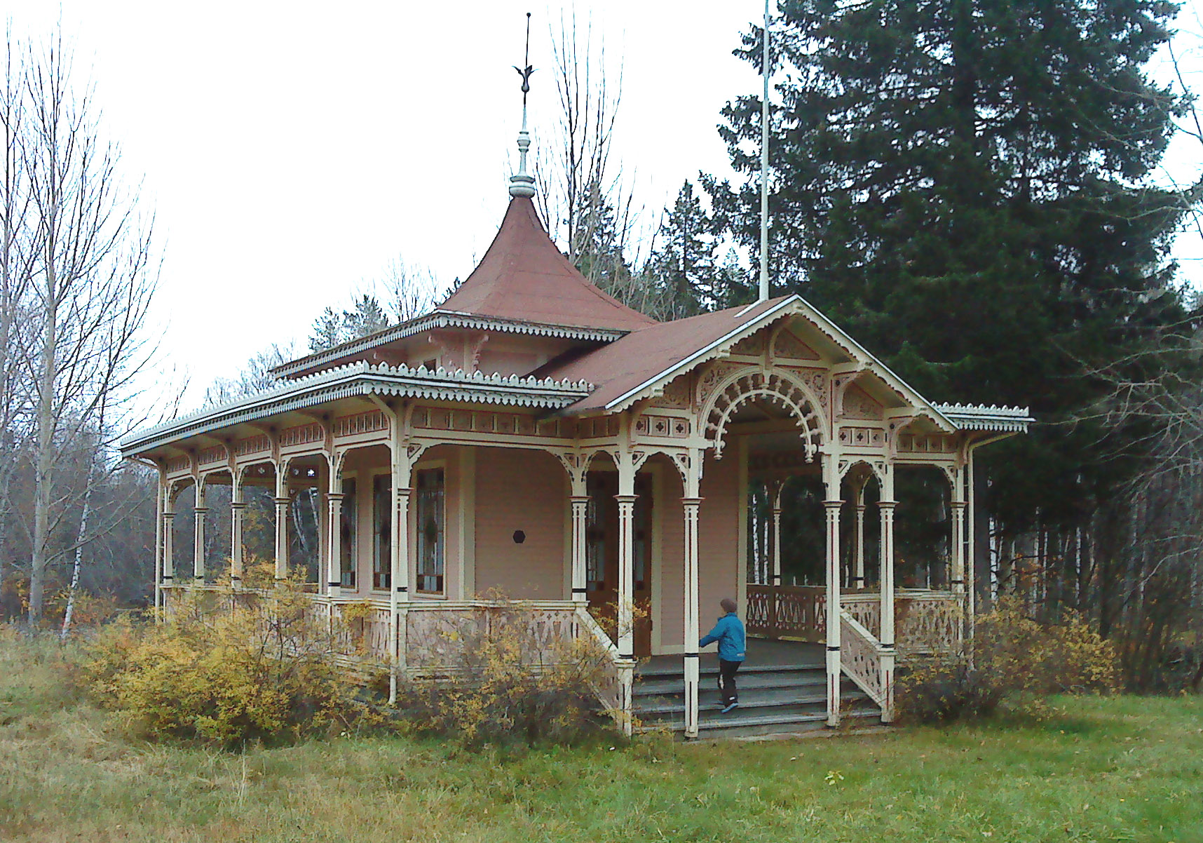 Åbacka paviljong from 1897.